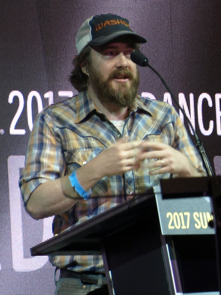 "I Don't Feel at Home in This World Anymore" won the U.S. Dramatic Grand Jury award at Sundance 2017, Park City UT